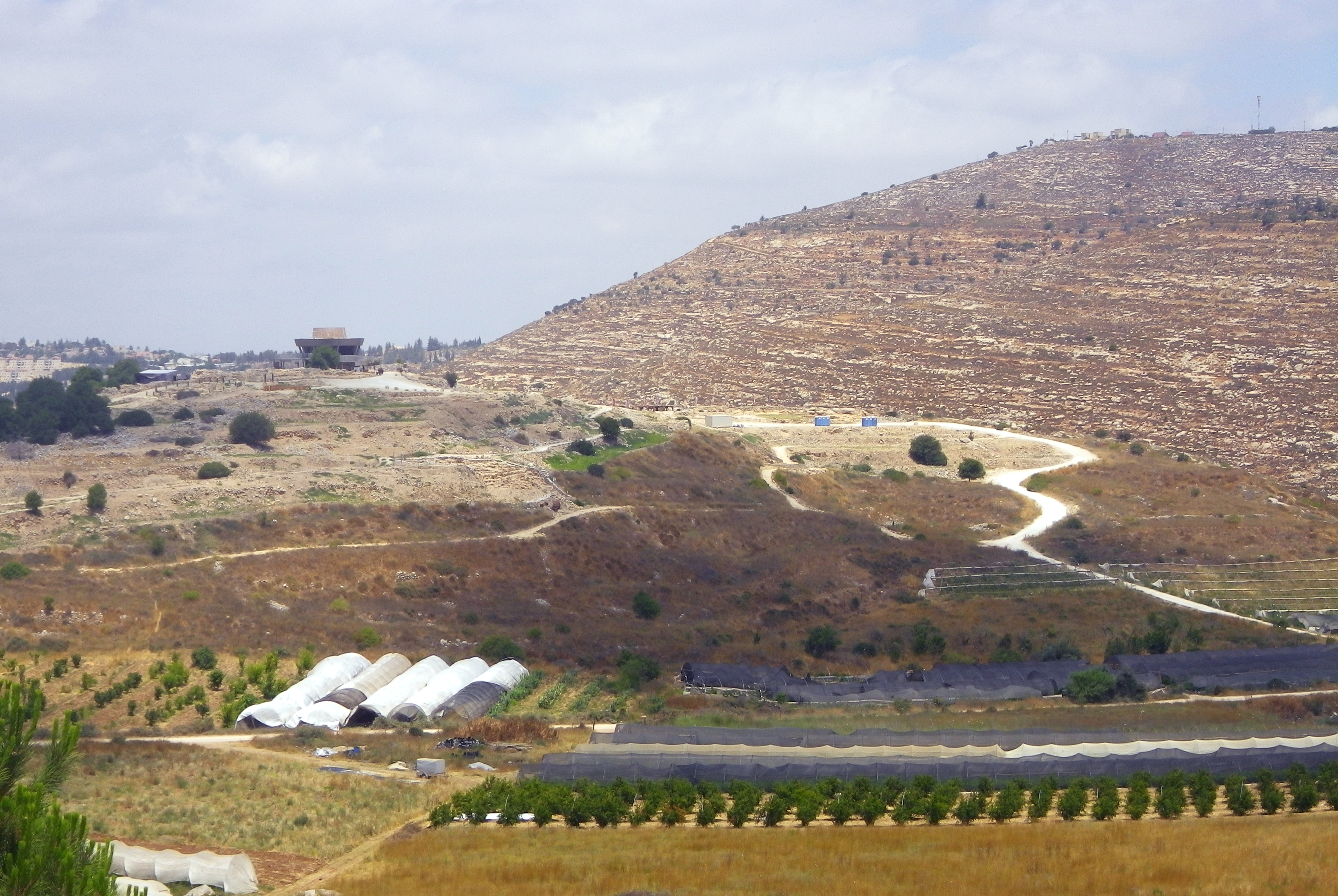 Tel Shiloh in the foreground with the round Shiloh visitor center visible on top of the tel.